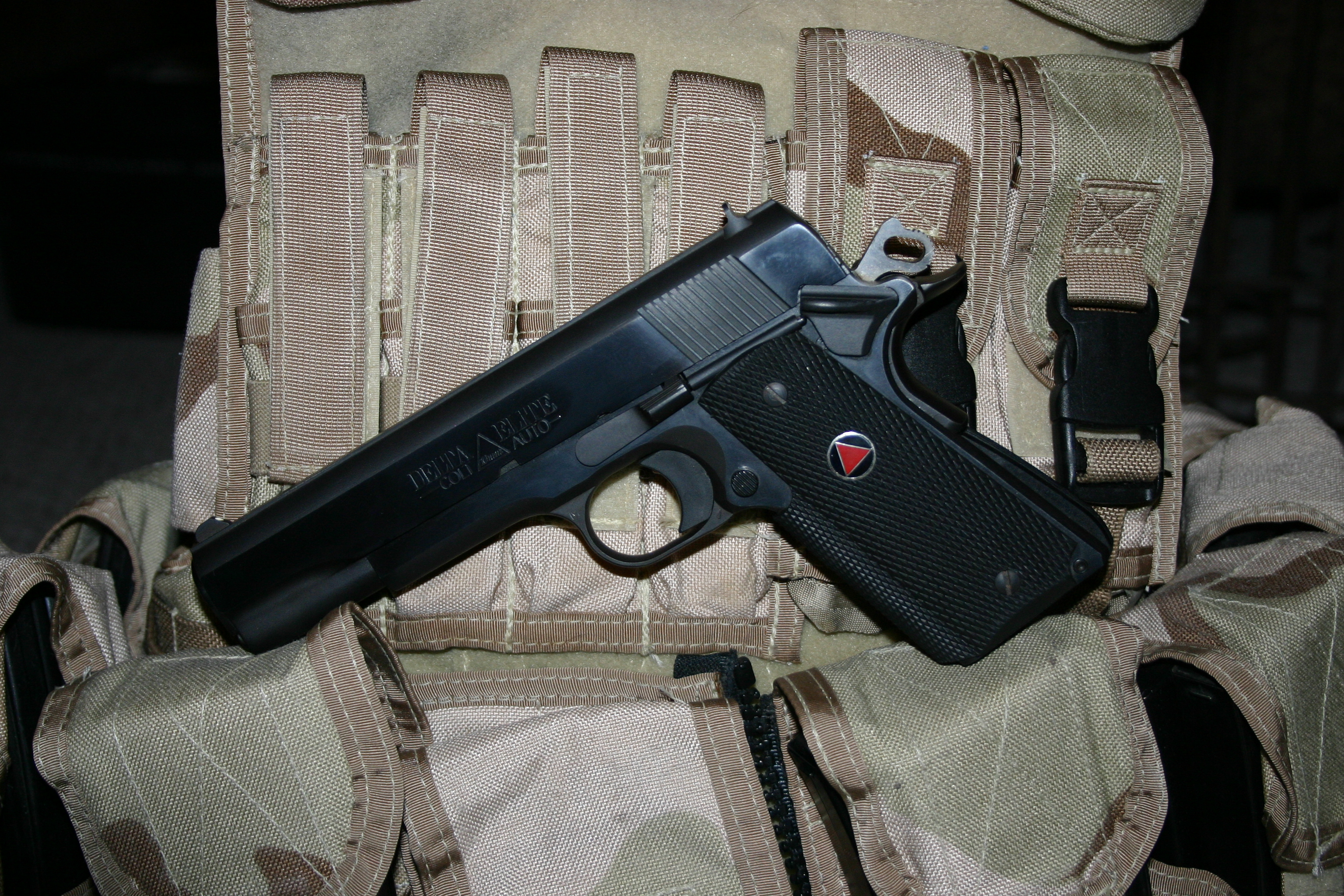 I took this Picture